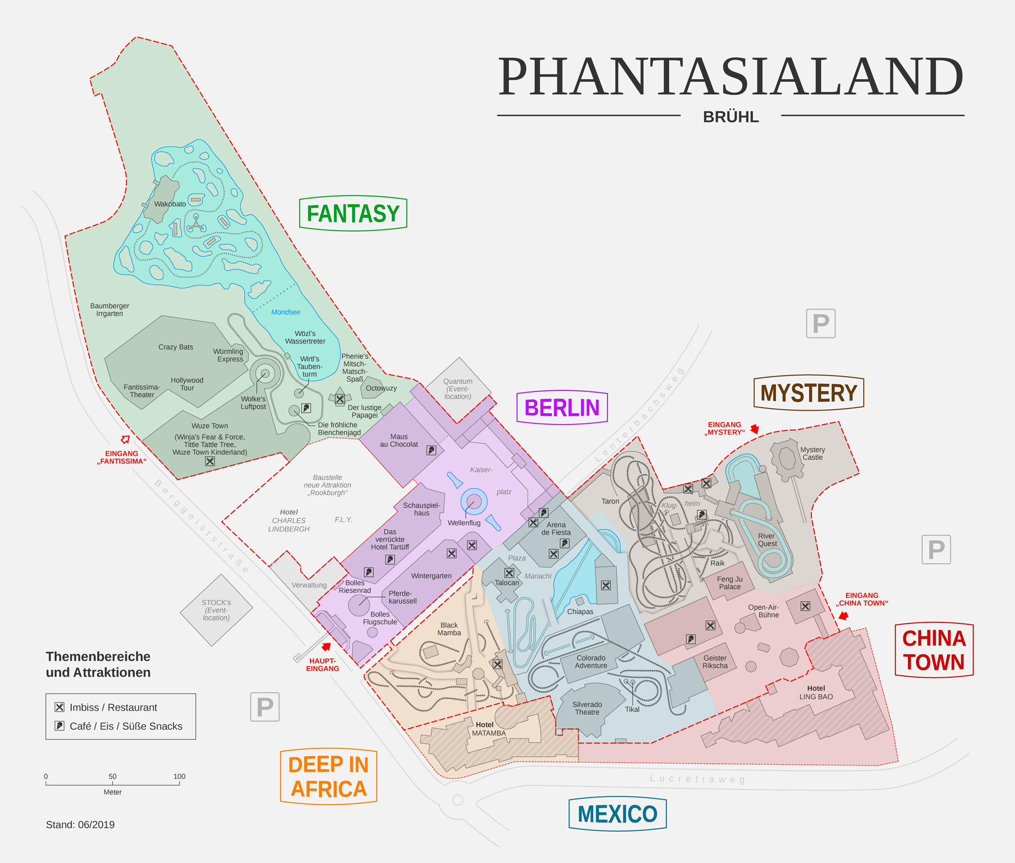 Map of Phantasialand theme park, Brühl, Germany